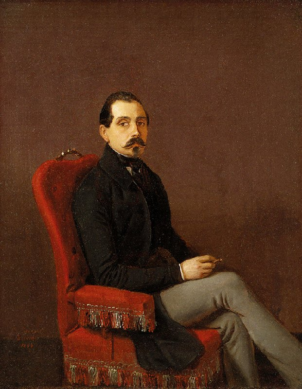 Portrait of Il'ya Fyodorovich Ladyzhenskij (1813—1862), Russian the owner of the stud farms